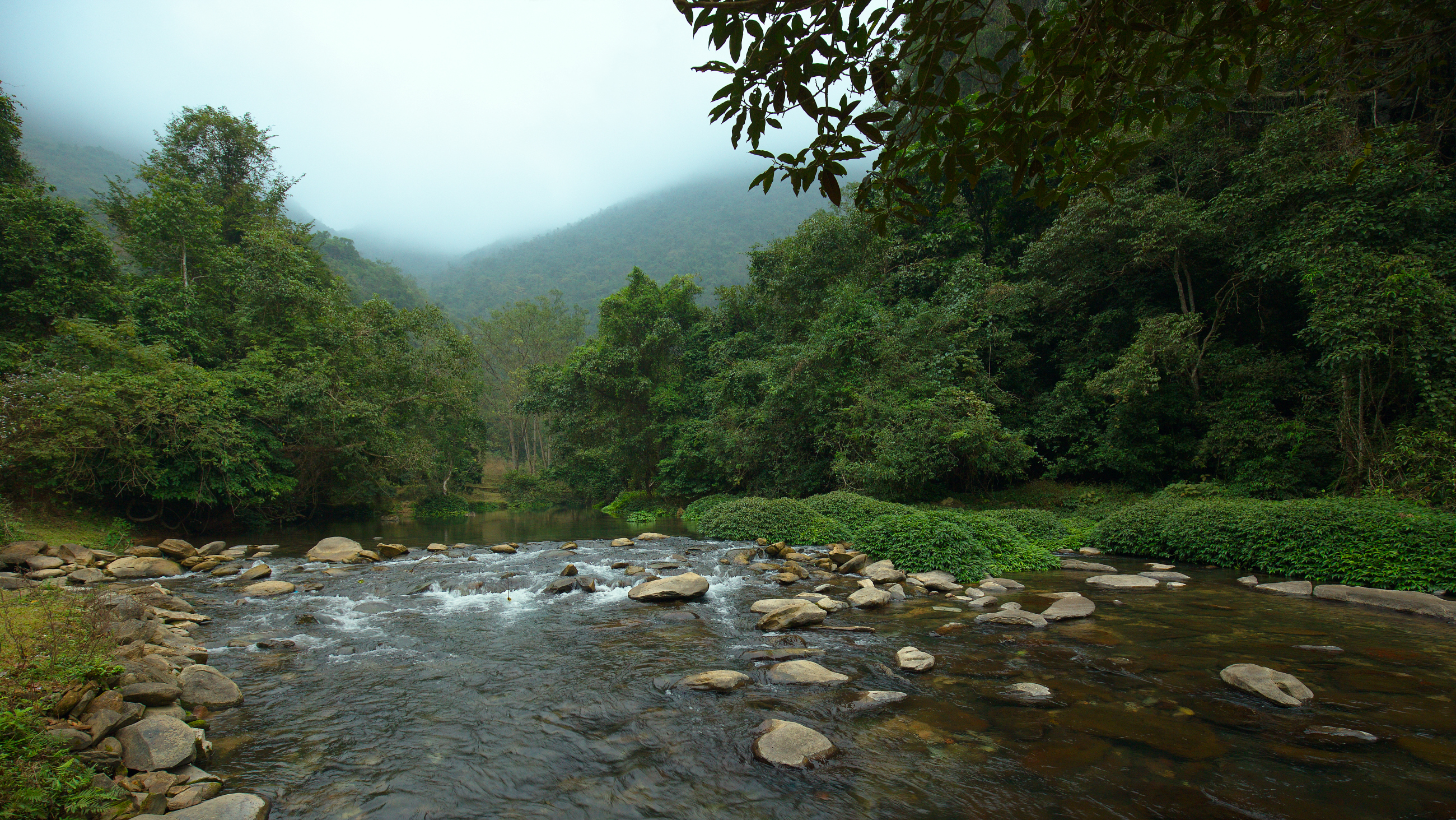 Lê Nin stream in Pác Bó tourism area, Hà Quảng district of Cao Bằng province, Vietnam.